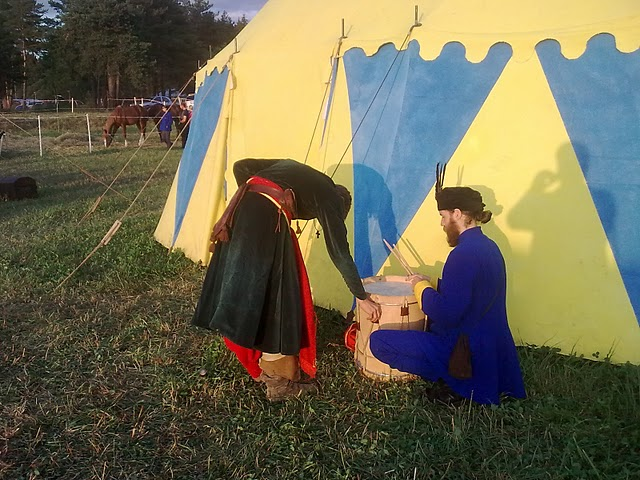 The Battle at Vavrišovo - reconstruction